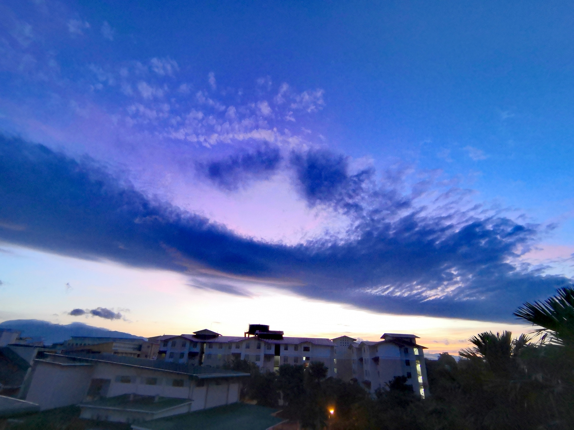 Smiling Cloud in Beautiful Morning at MJII College